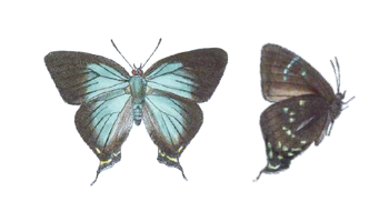 Thecla augustula = Theritas augustula (Kirby, 1877), male upperside (left) and underwing